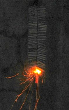 Judas' belt. Taken by me, xmastree, at midnight on December 31 2005.